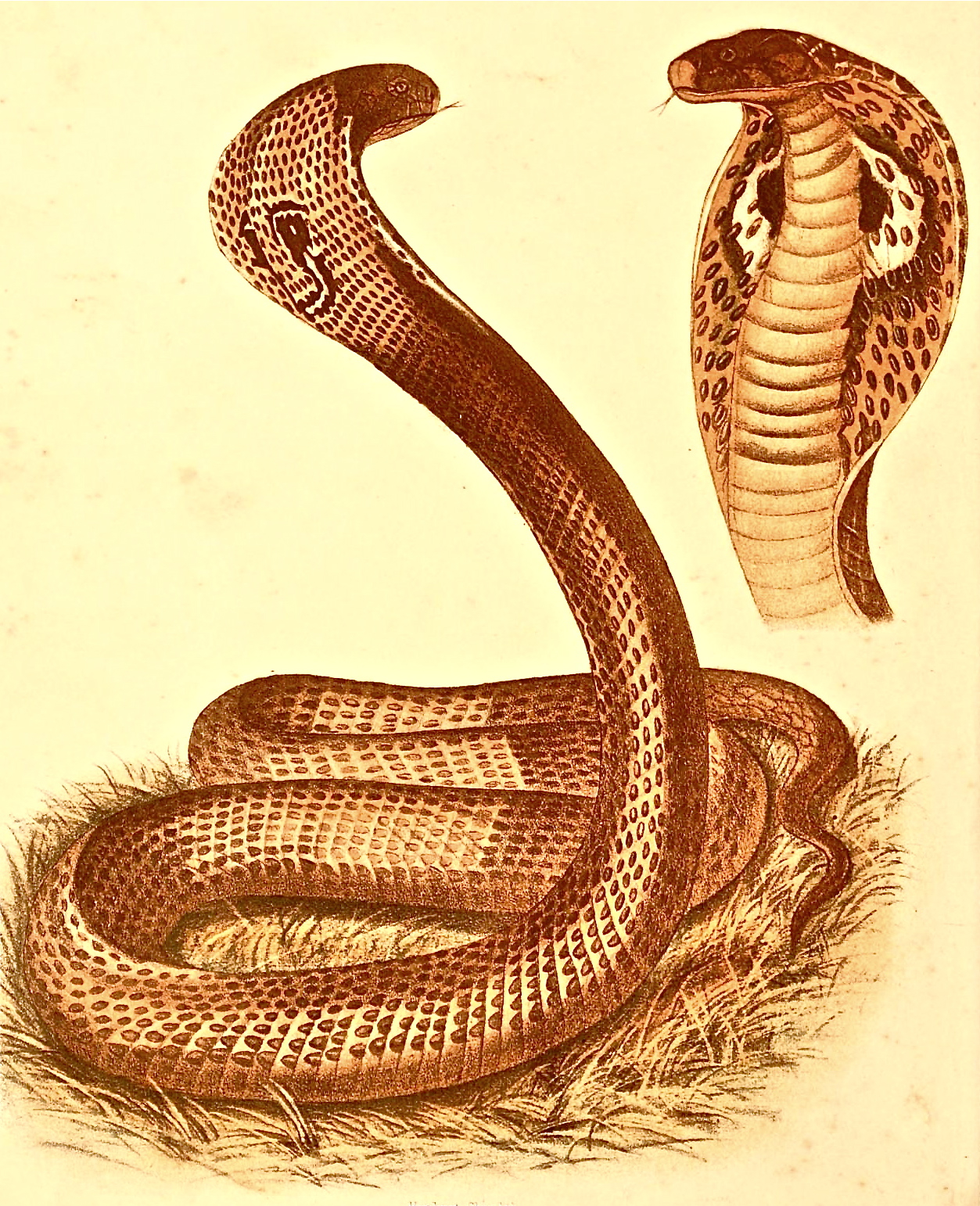 The poisonous snakes of India.. London:J. & A. Churchill,1878.. The #Indian #Cobra is 1 of the "Big 4" - 4 snakes that inflict most snake bites in India. The poisonous snakes of India, by Joseph Ewart (1878) For description of the snakes